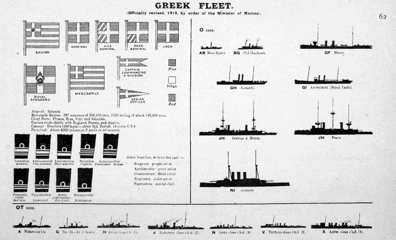 Flags, rank insignia and silhouettes of the warships of the Greek Navy, 1914